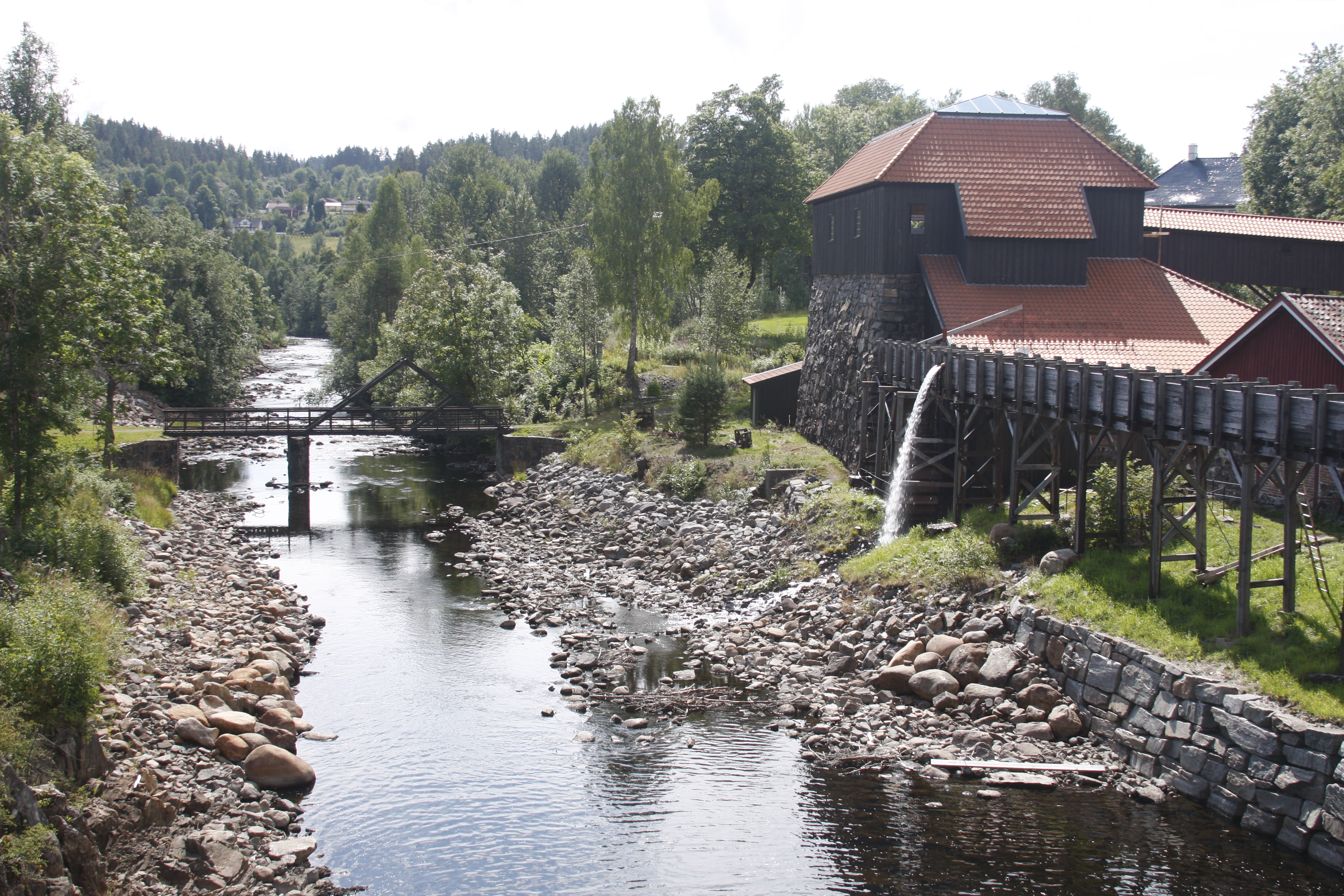 Nes Jernverk, in Tvedestrand municipality, Aust-Agder Norway. 17th century.